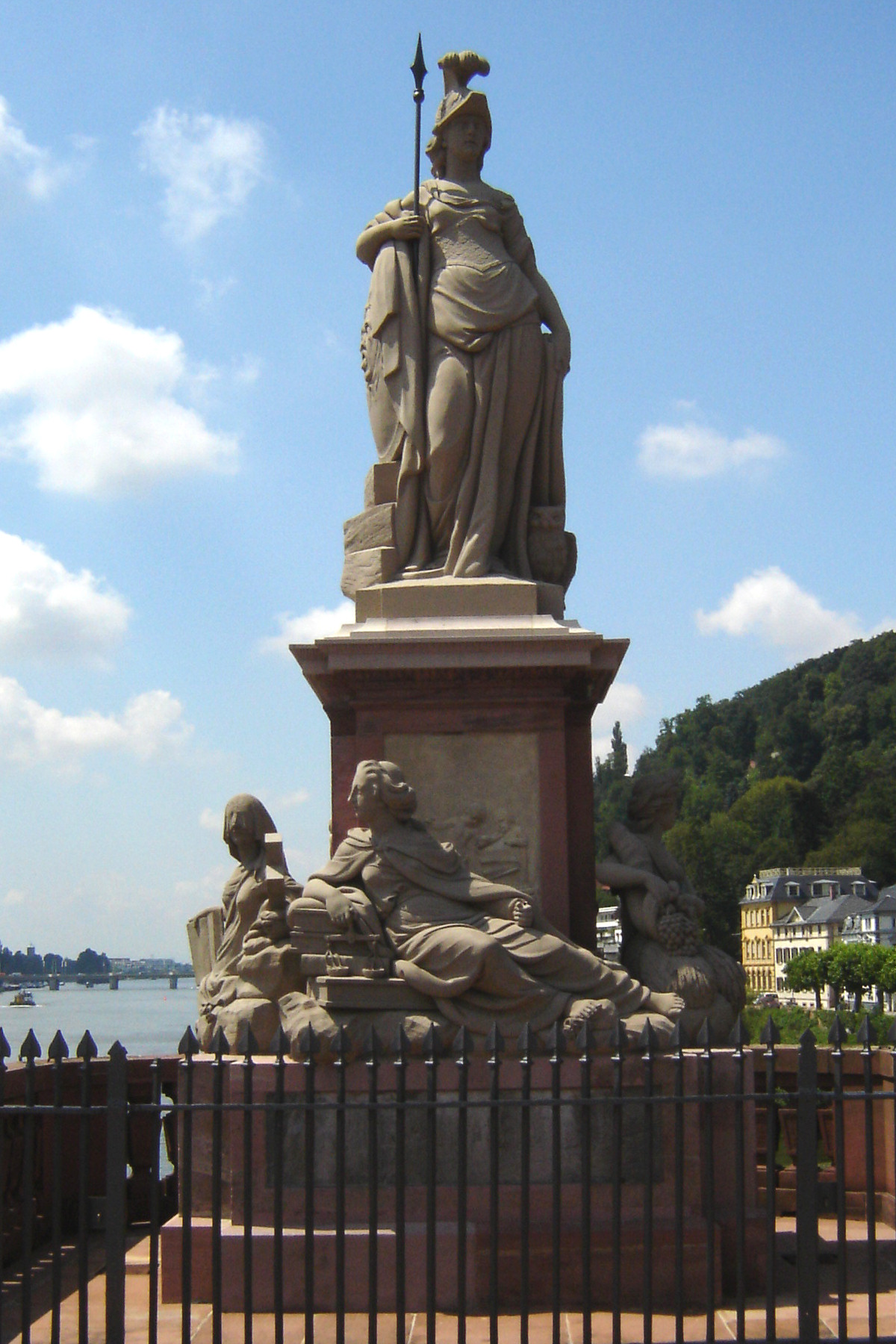 Statue of Minerva on the Old Bridge (Alte Brücke) of Heidelberg, Germany. Carl Linck, 1790.